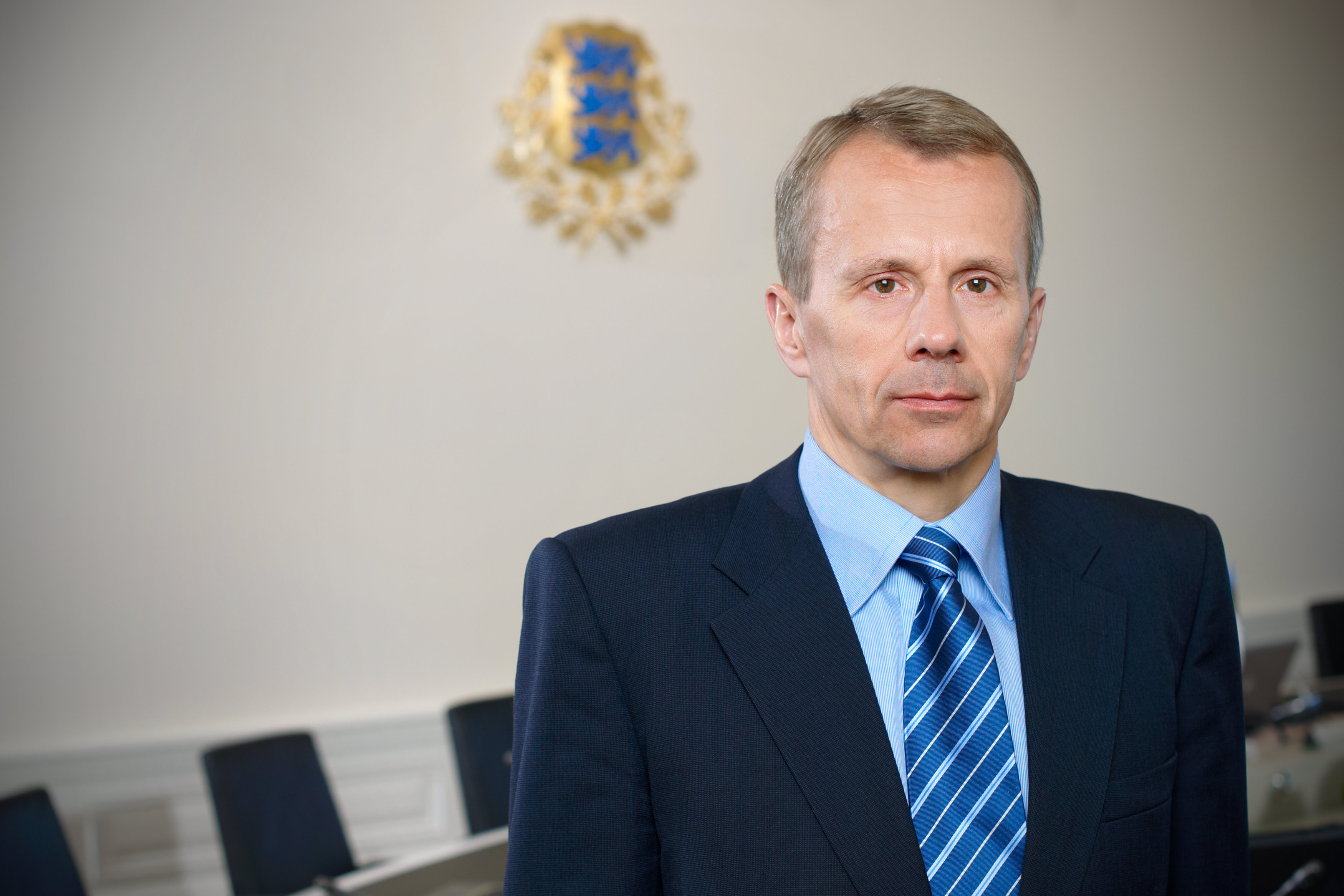 Jürgen Ligi